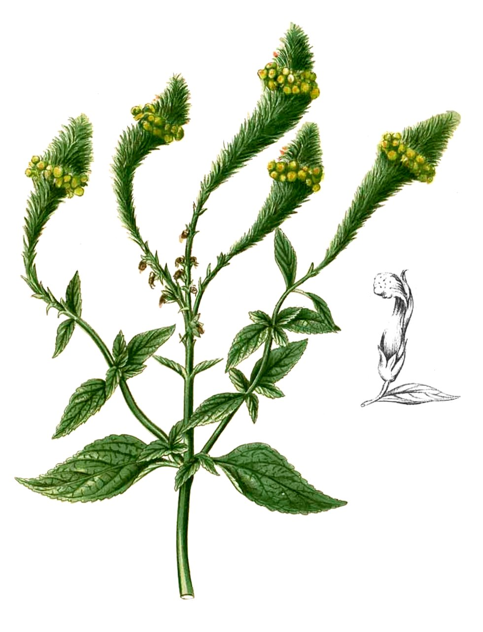 Lindenbergia philippensis, Plate from book